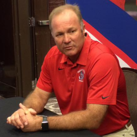 Tim DeRuyter, head coach of the Fresno State Bulldogs football team, at the 2016 Mountain West Conference Media Days in the The Cosmopolitan in Las Vegas.